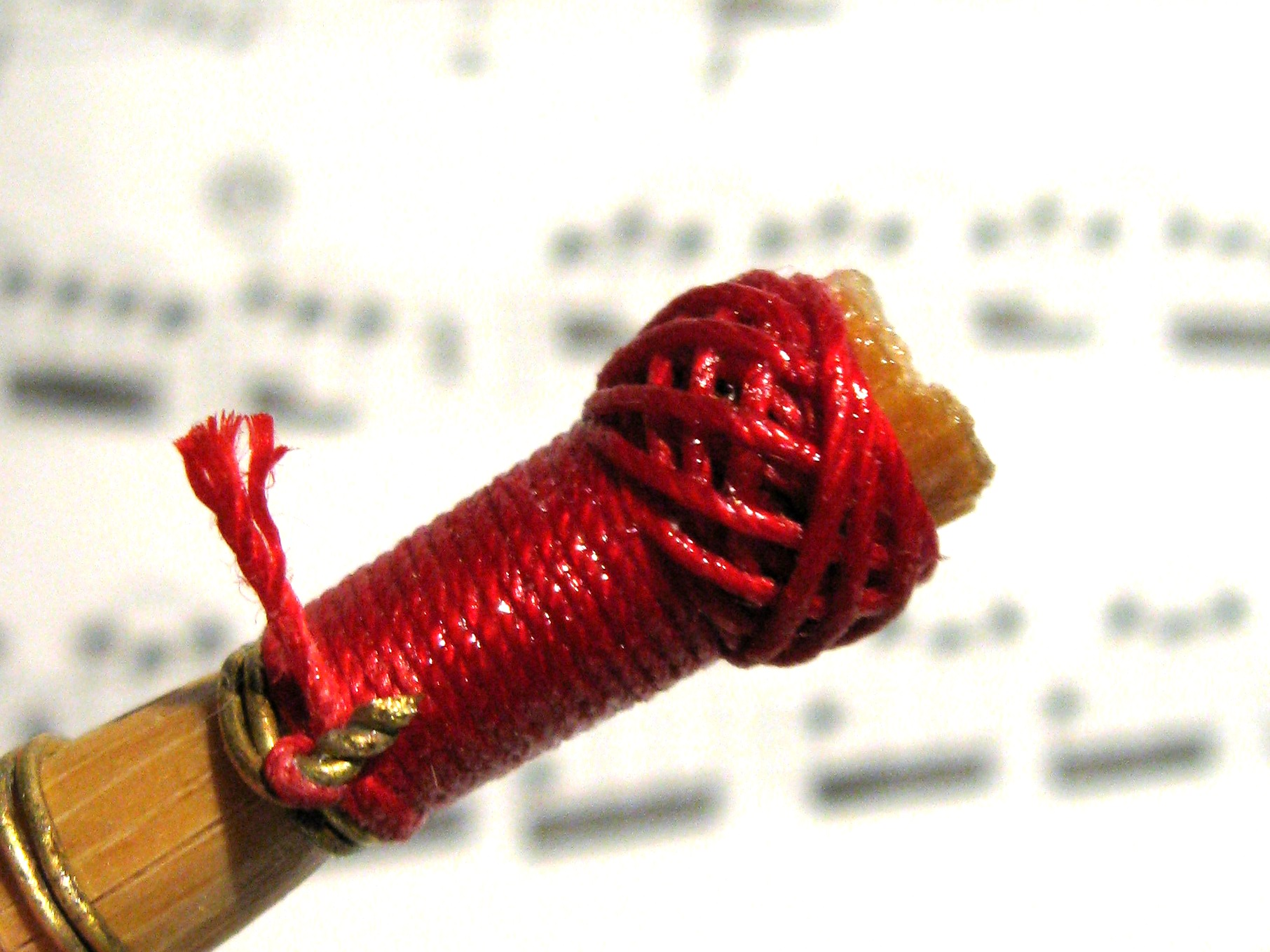 Close-up of binding on a bassoon reed that I made today.